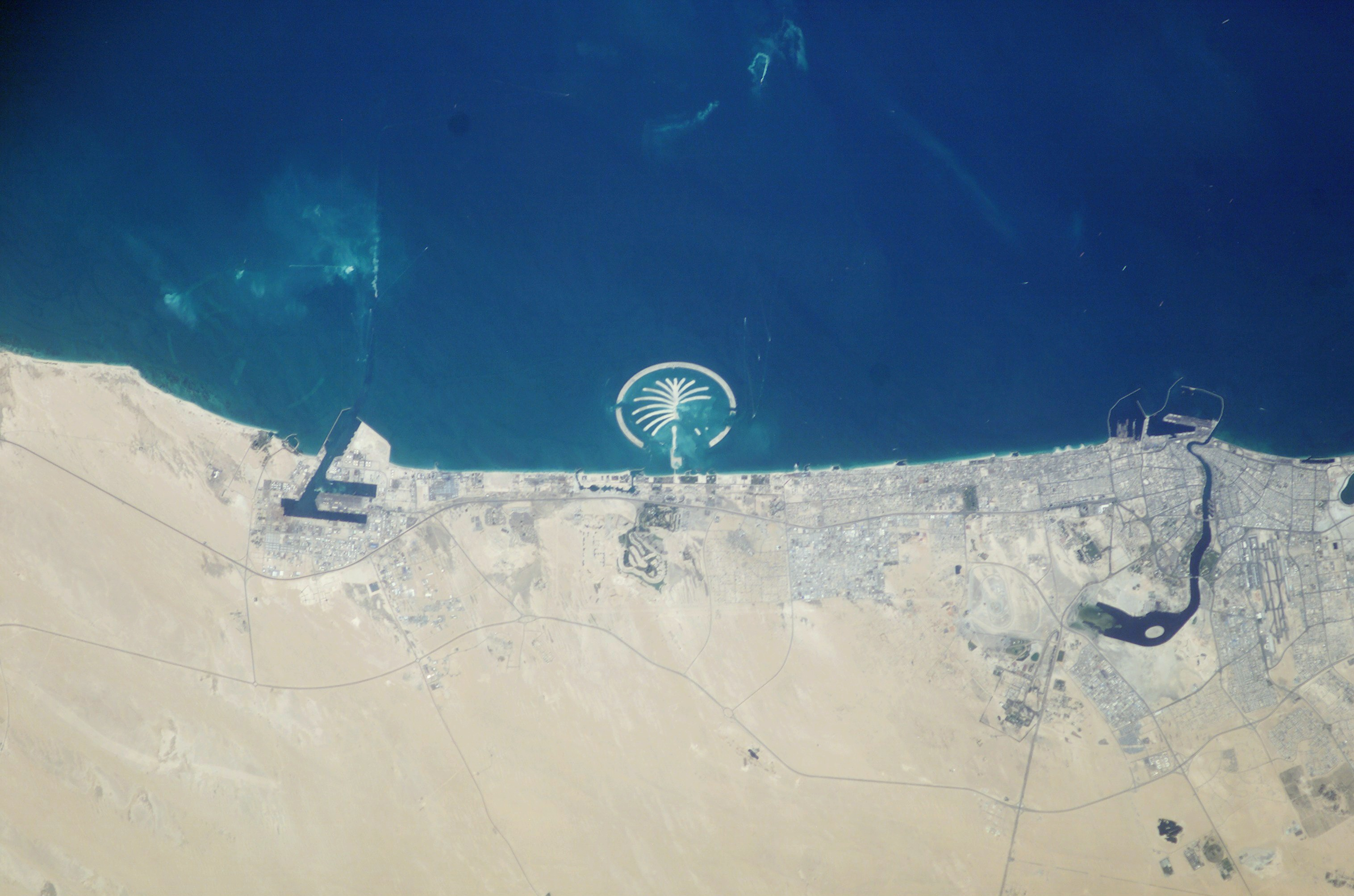 Palm Island in Dubai, United Arab Emirates - satellite image